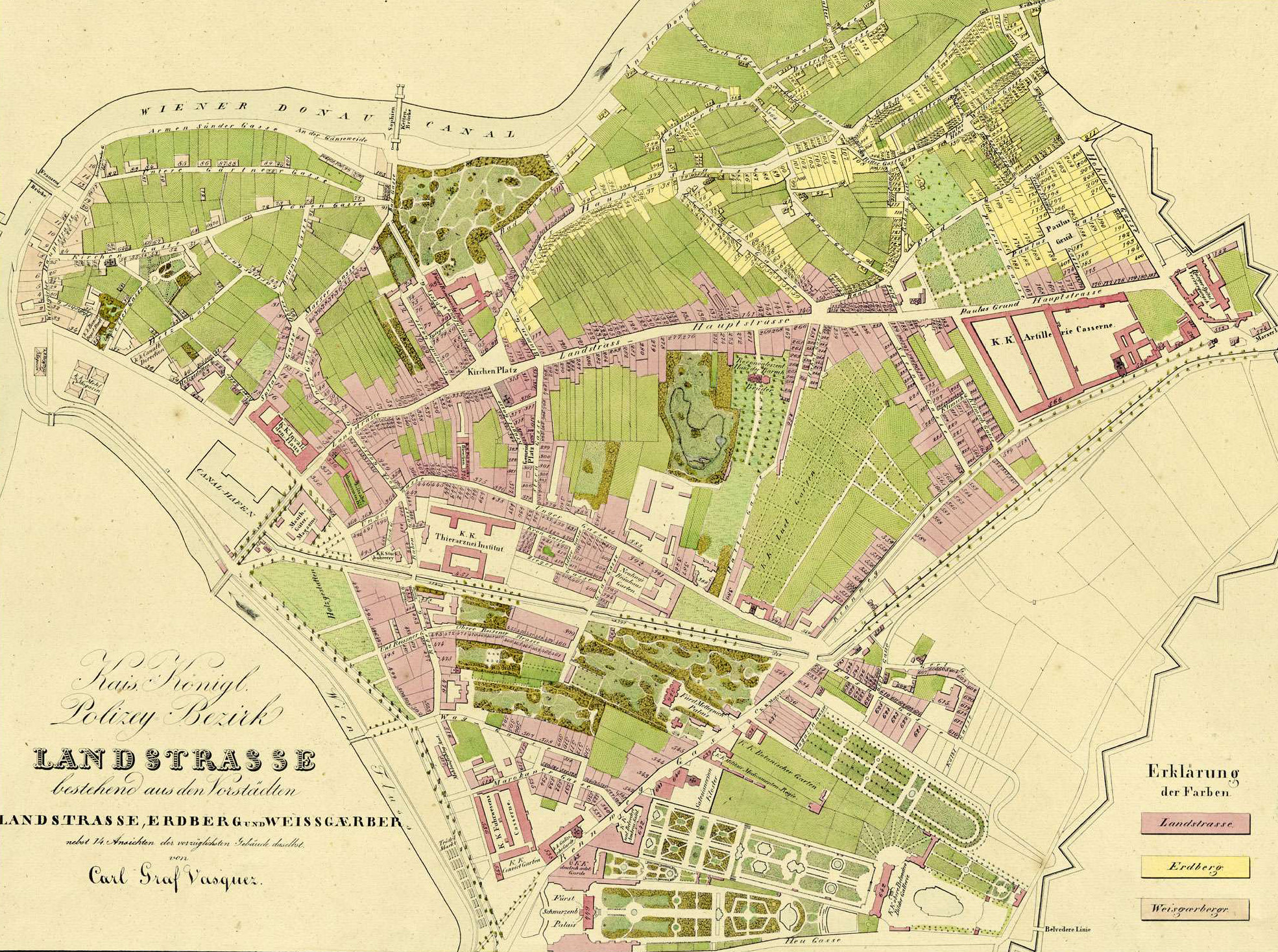 Map of Vienna, Landstraße aprox. 1830